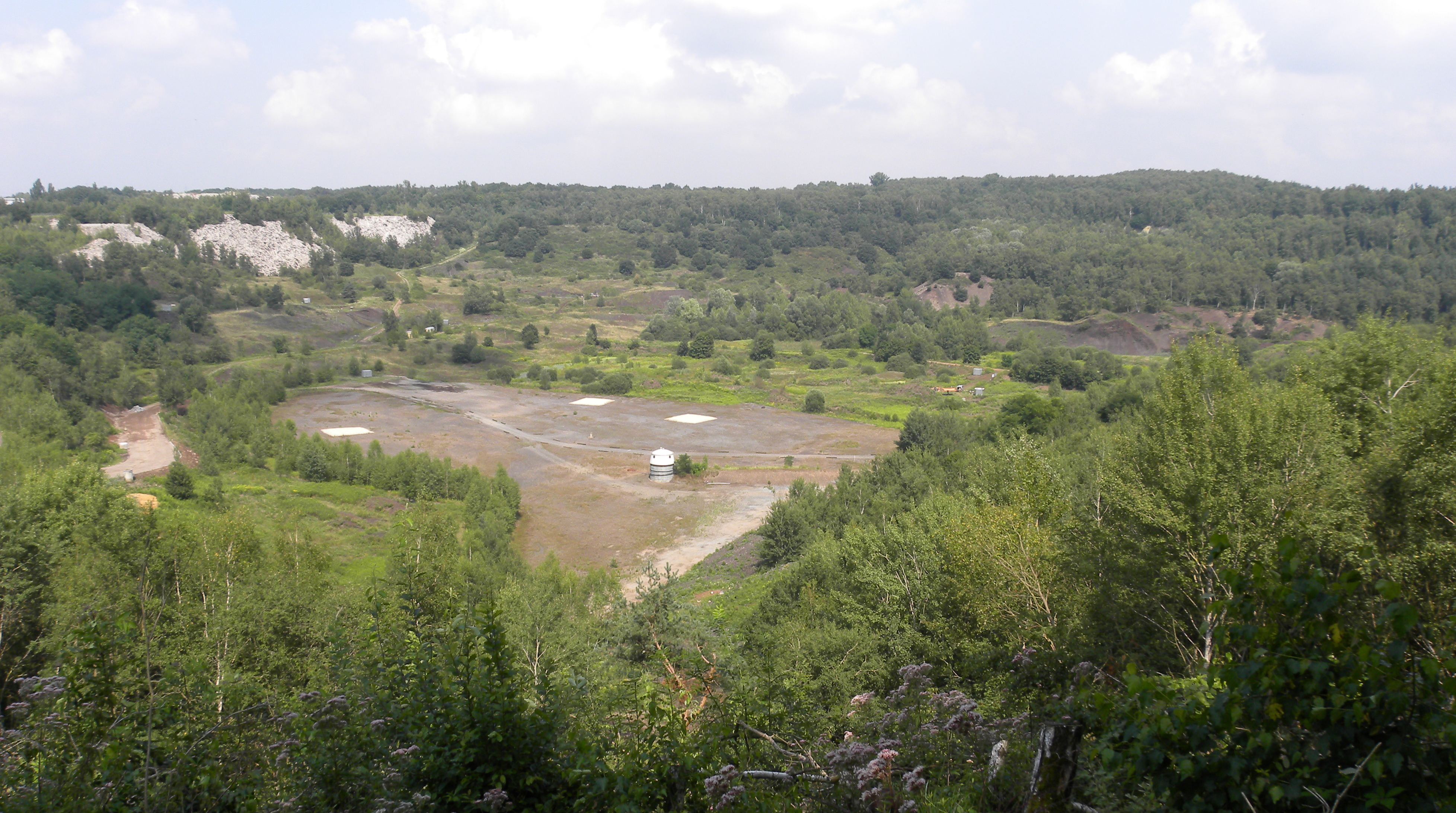 Messel Fossil Pit (Eocene, Germany), viewed from its southern rim with view to the northeast. The whitish slopes on the left (north) belong to the waste dump of the nearby factory of the Ytong company.